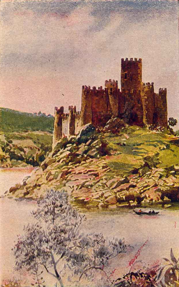 "Almourol Castle", by Roque Gameiro, in Quadros da História de Portugal ("Pictures of the History of Portugal", 1917).